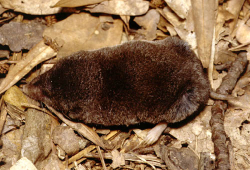 Southern Short-tailed Shrew , Blarina carolinensis, Durham, North Carolina, United States. Shows short tail typical of species. (Date approximate.)